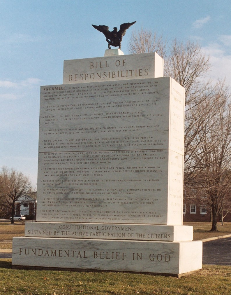 Freedoms Foundation at Valley Forge, Wayne, PA